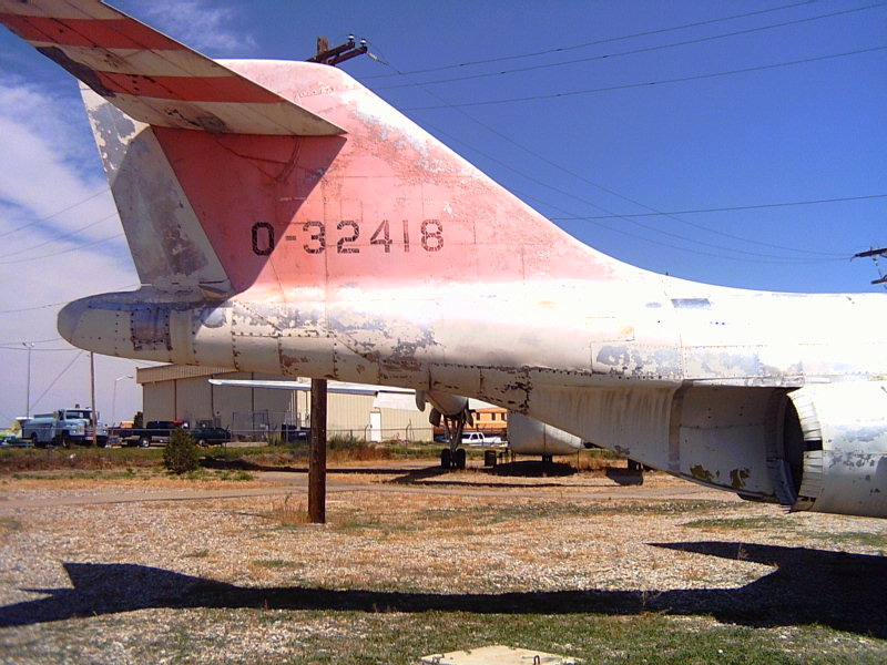 F-101A Voodoo tail shot at Pueblo Weisbrod Aircraft Museum, Pueblo Memorial Airport, Pueblo, CO. Personal photo taken by Lance Barber, 2007, for GFDL Wiki usage. Voodoo tail number 32418 has been moved to Evergreen Air and Space Museum in McMinnville Oregon. It has been restored as per owners desires.